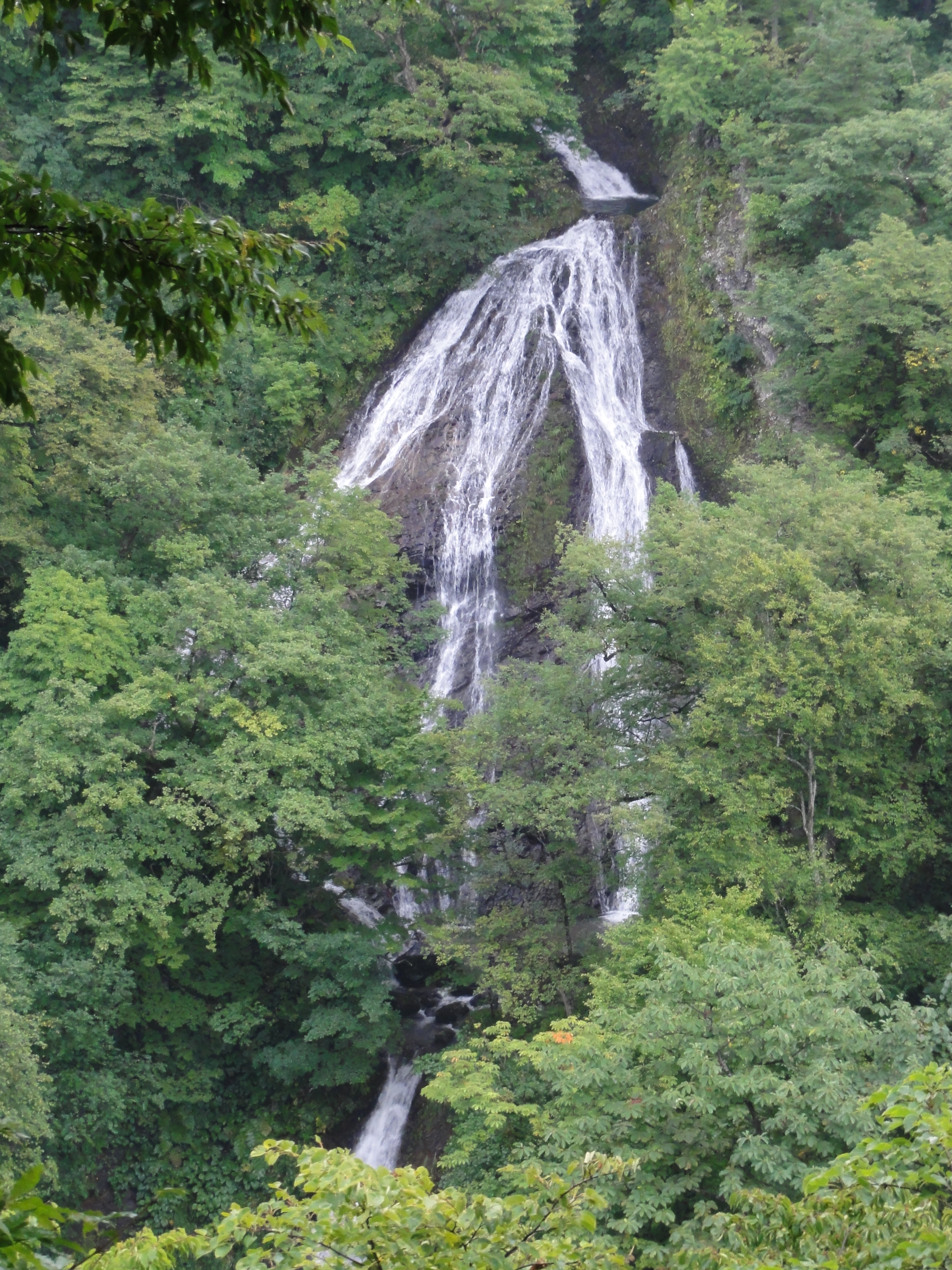 Nanatsu waterfall,Yamagata Pref., Japan